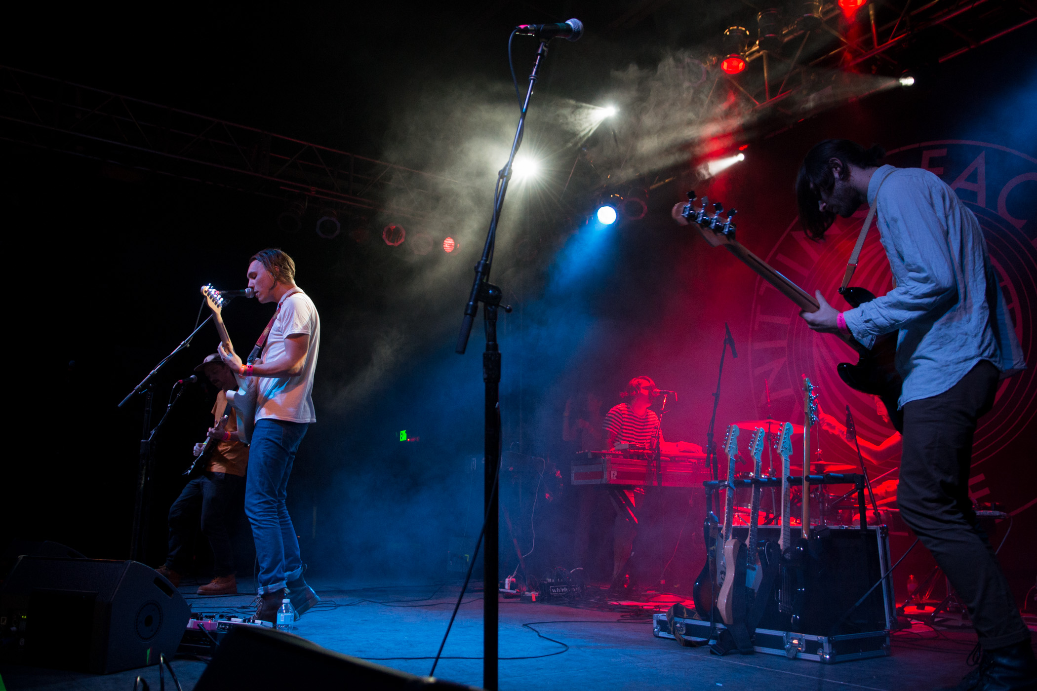 FromIndianLakes-KnittingFactory-Treefort-Credit-Steel-Brooks-6